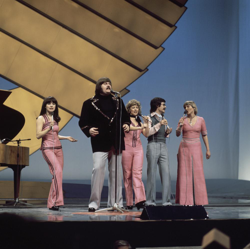 Fredi & Ystävät at a rehearsal for the Eurovision Song Contest 1976.